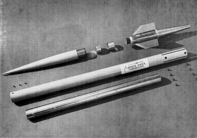 Dart artifact components.